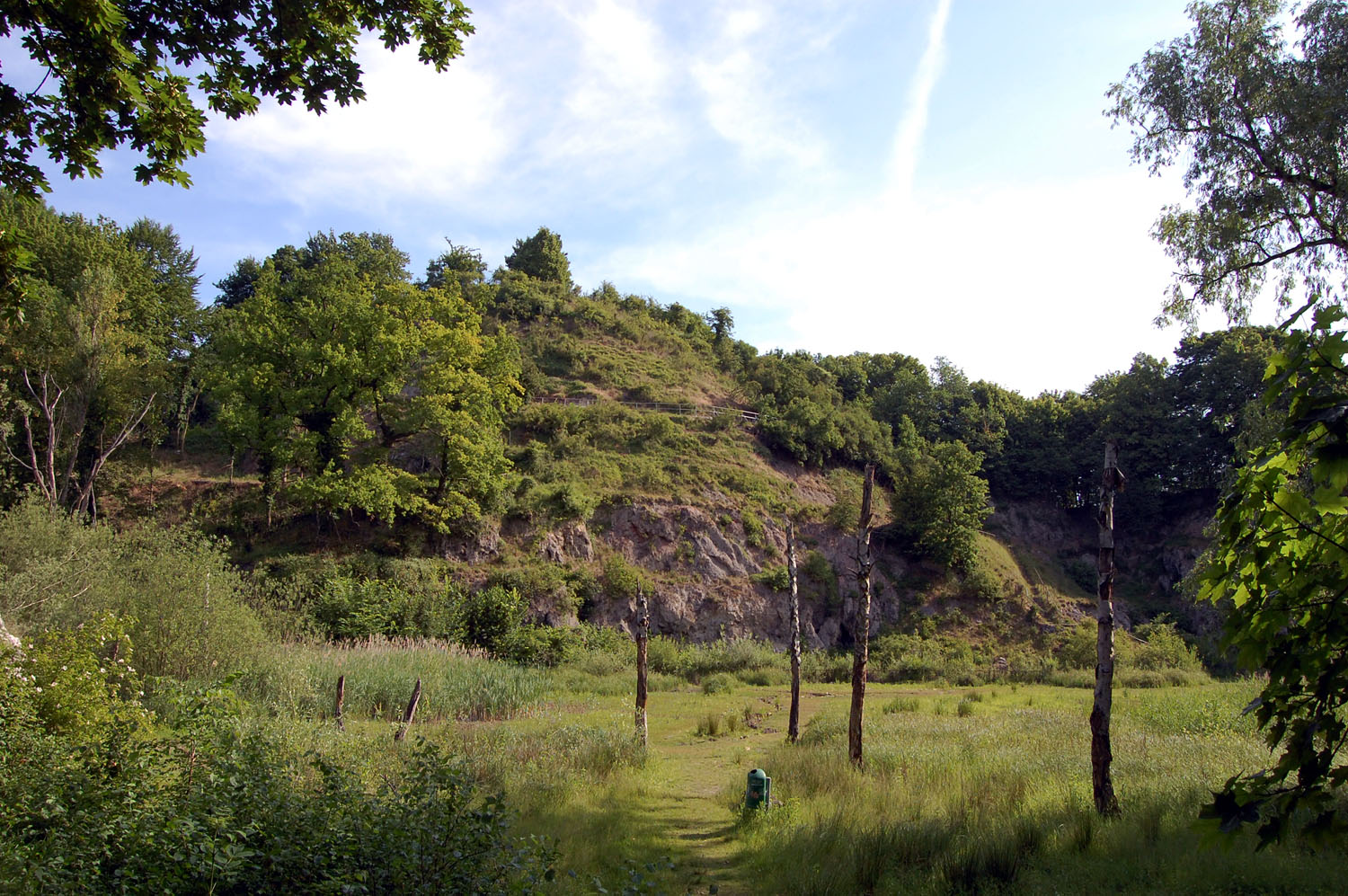 "Lueneburg Kalkberg" view from south through the hole left by mining of gypsum